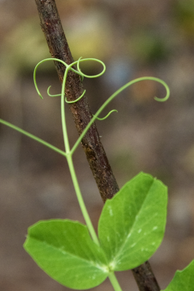 A good article on snow peas .